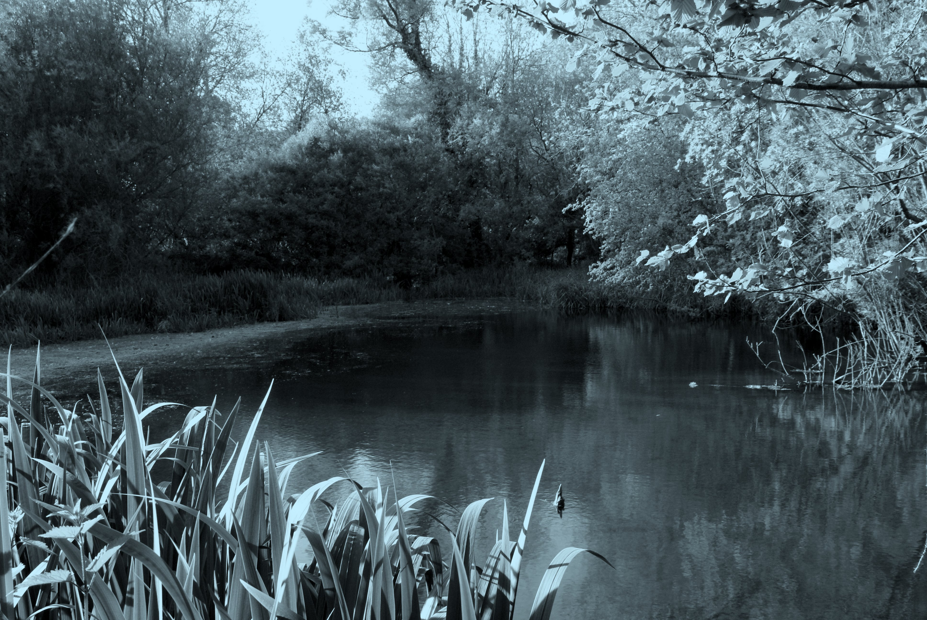 Jones Mill Nature Reserve, Pewsey, Wiltshire